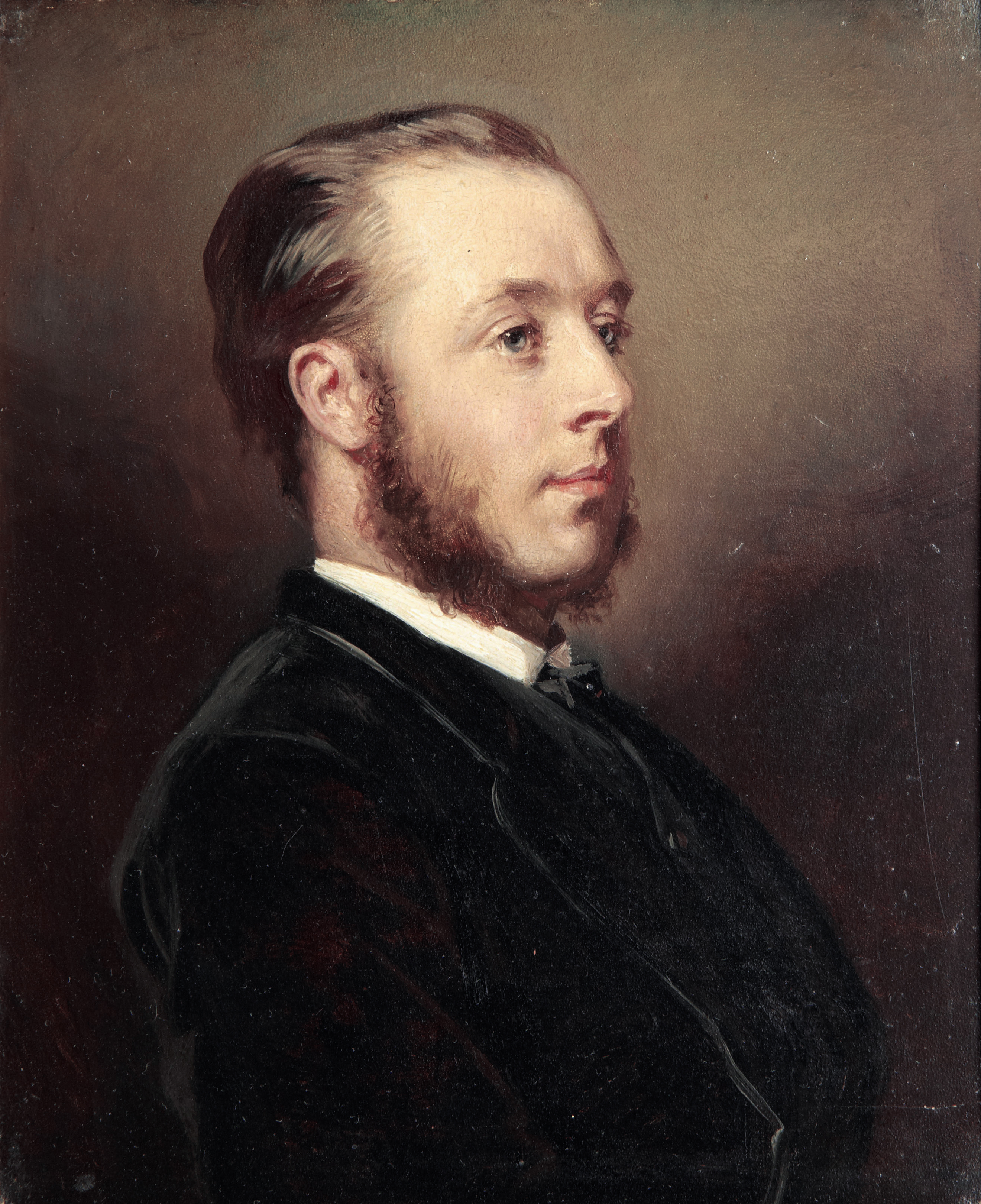 George Hugh Wyndham oil on board 22 x 18cm signed verso 1868